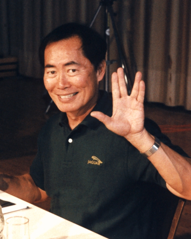 American actor George Takei at the Star Trek Convention UFP Con One in Hamm, Germany, 1996.